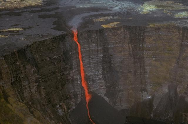 Lava cascade from Mauna Ulu flowing down into Makaopuhi crater, Kilauea, Hawaii, United States